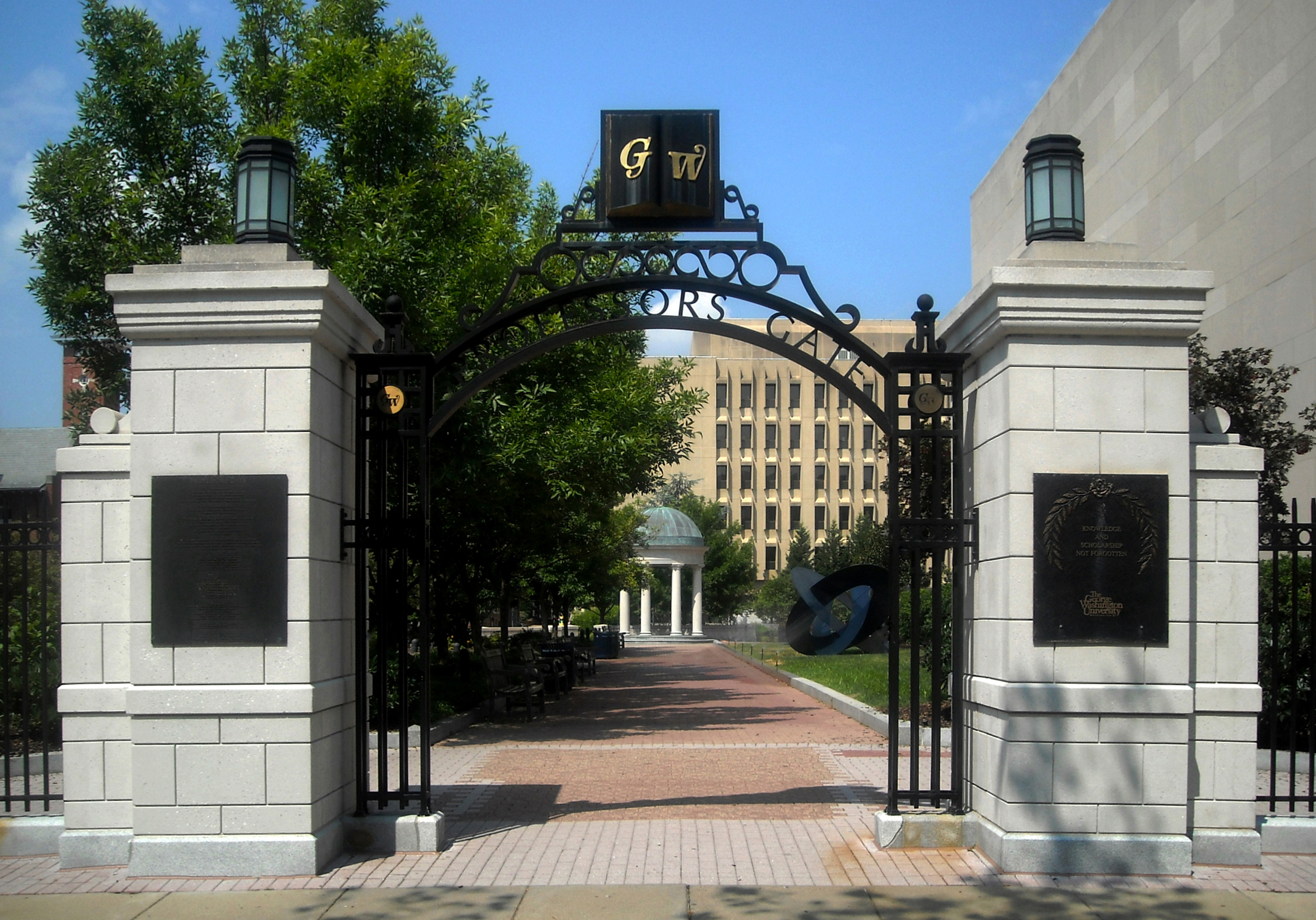 Professors Gate located on The George Washington University campus in Washington, D.C.